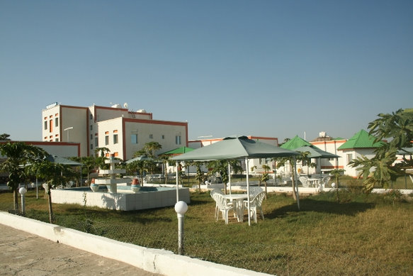 The Rays Hotel in Borama, Somalia.